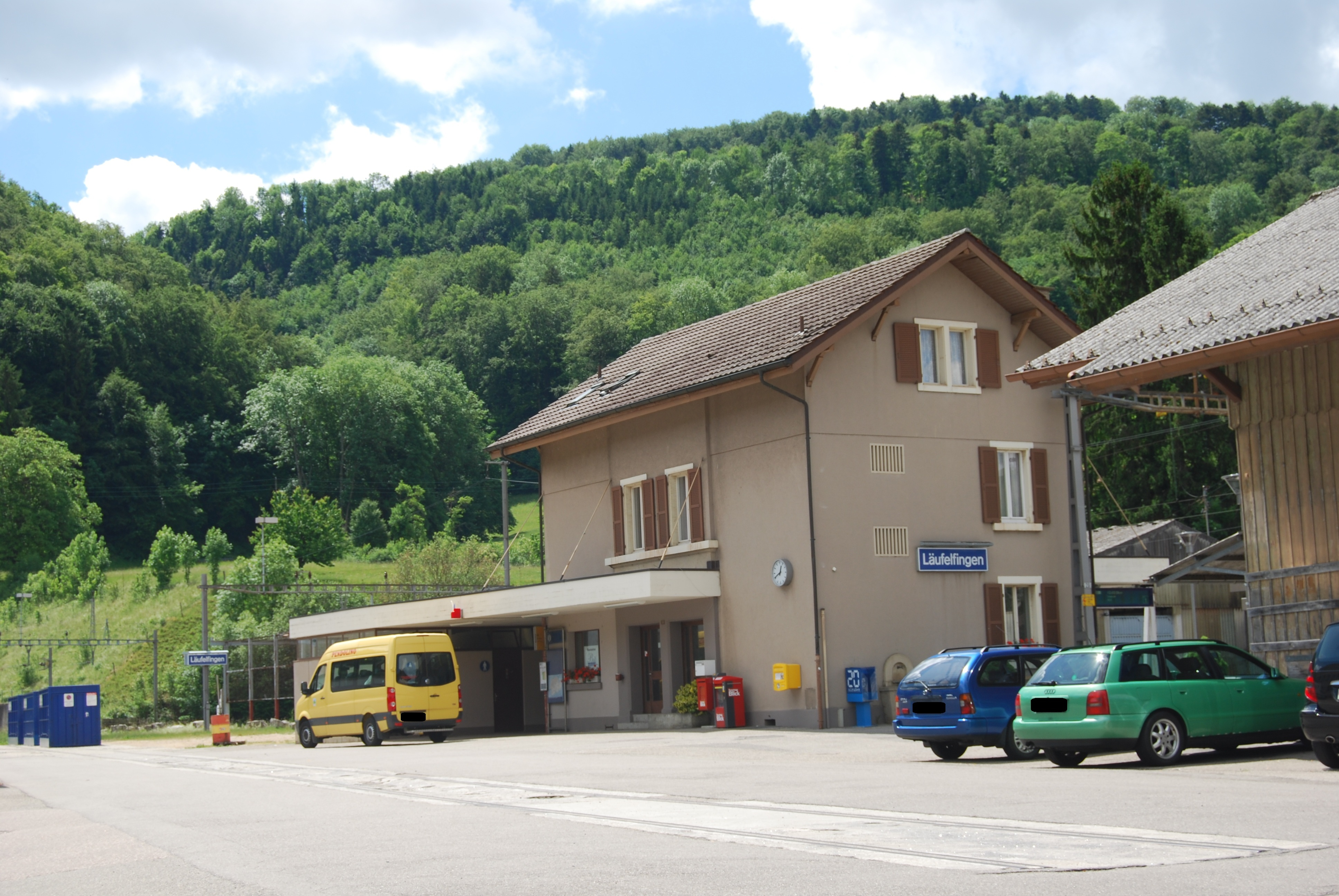 Train station of Läufelfingen, canton of Basel-Country, Switzerland